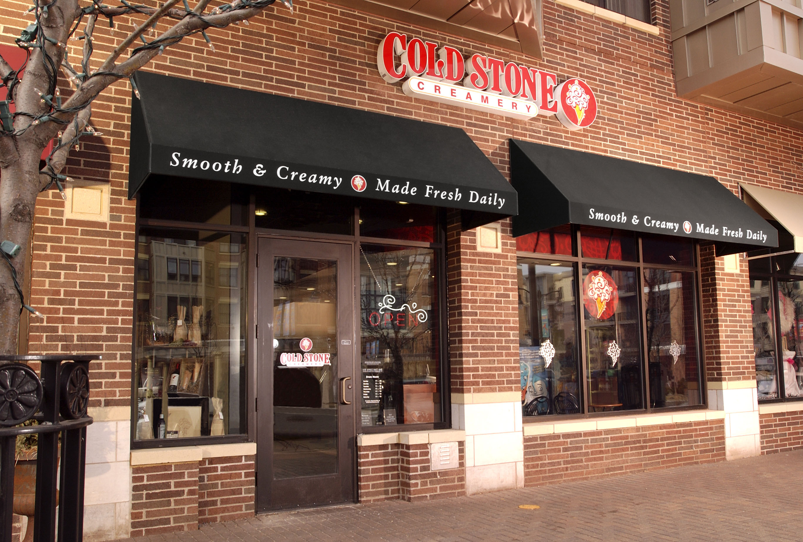 Cold Stone Store